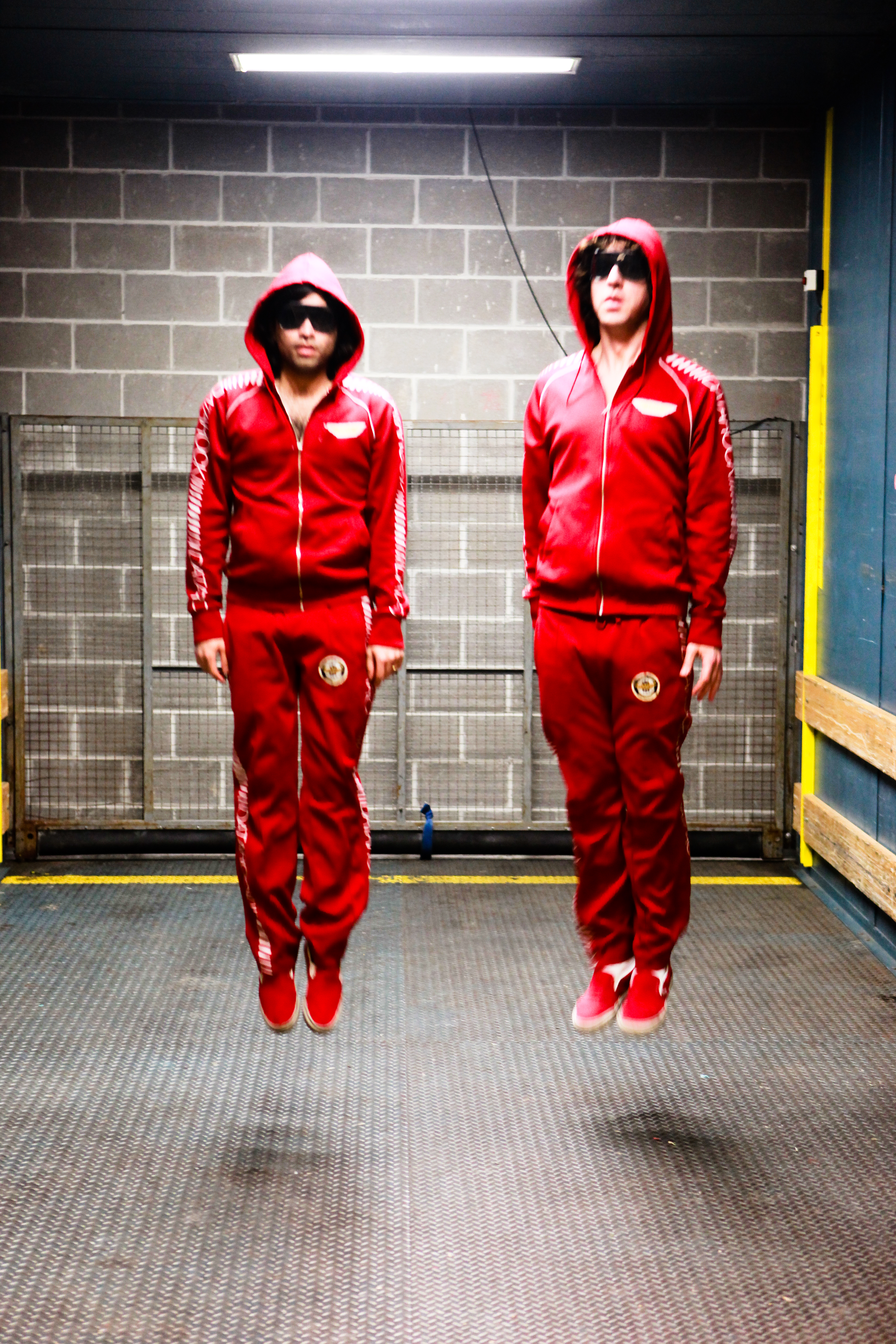 Datarock at South by South West in Texas 2009 shot by Kris Krug (